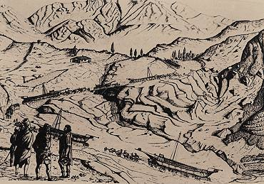 Galeas per Montes - The last portion from Loppio Lake to the passo of San Giovanni Vèneto: Galeas per Montes - L'ultimo toco de salida, dal Lago de Lopio al paso de San Giovani